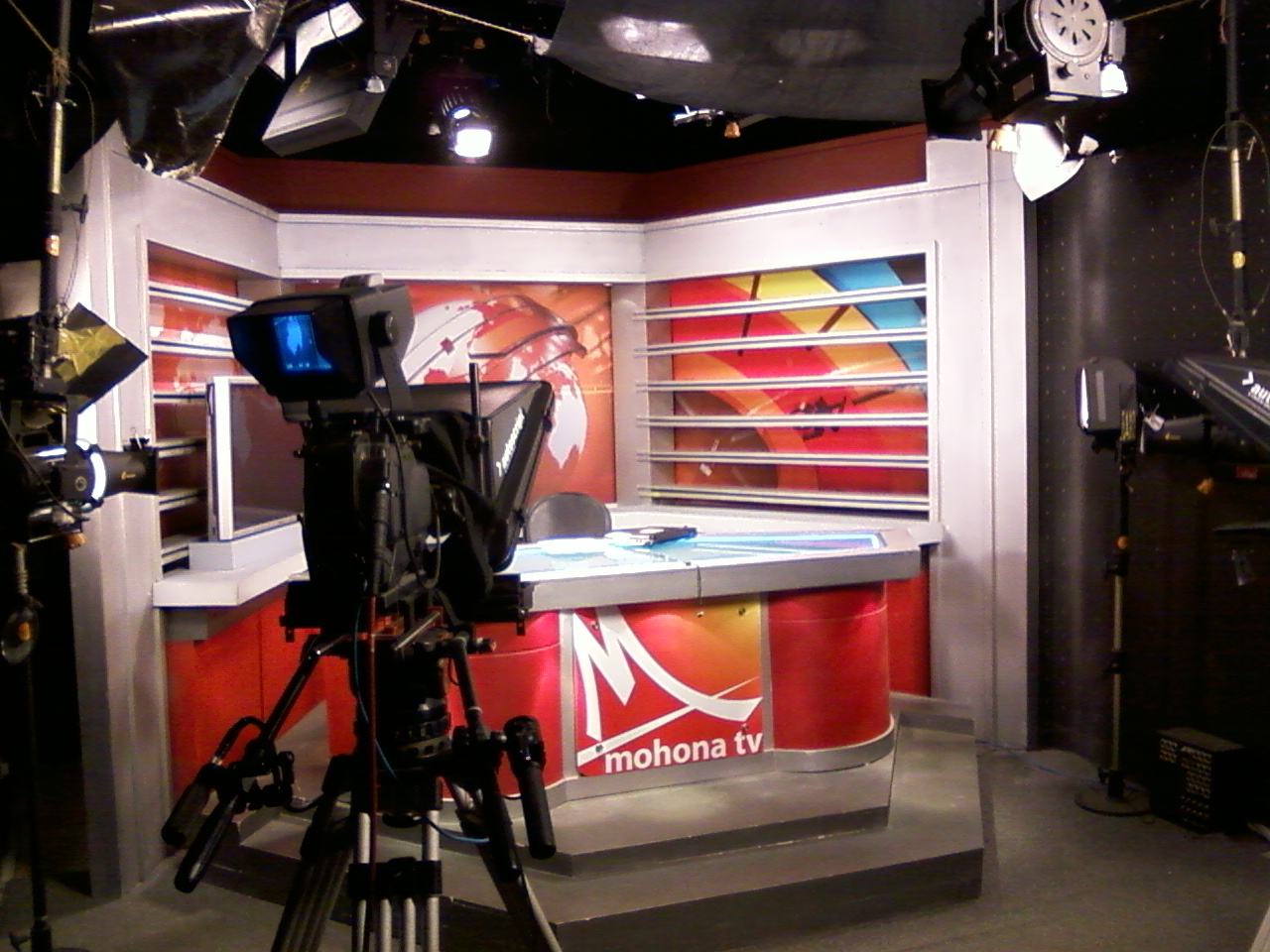 News Studio of Mohona TV by Rezowan